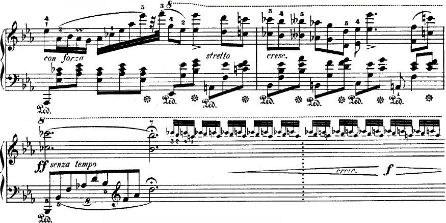 Coda of Chopin's Nocturne Op 9, No 2